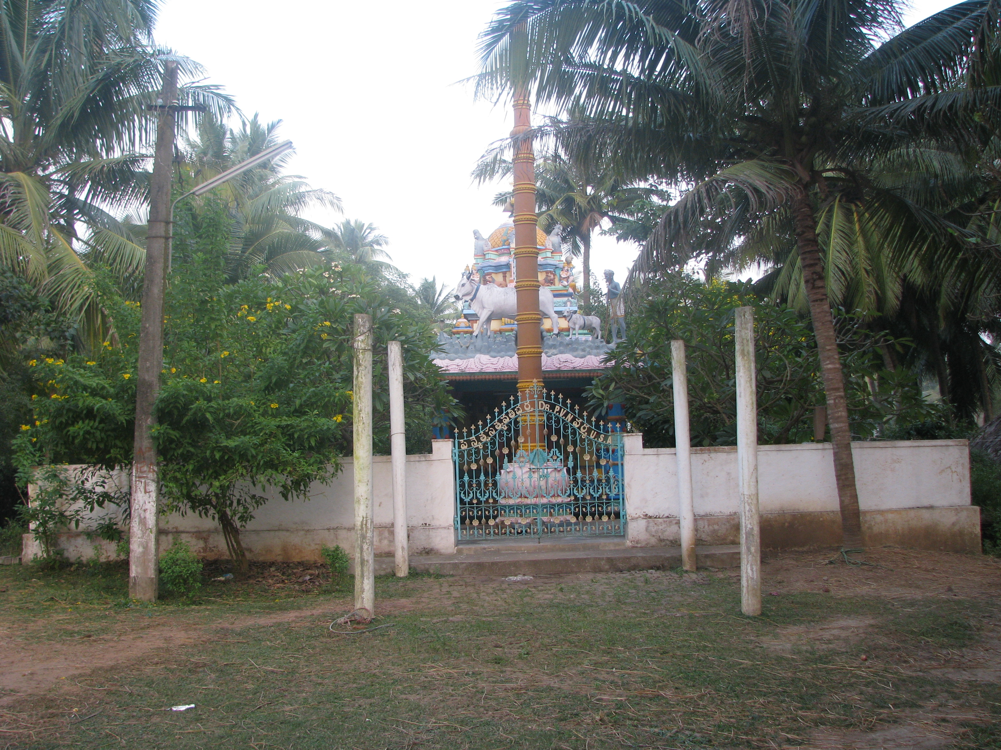 Pedapudi_venka_Temple